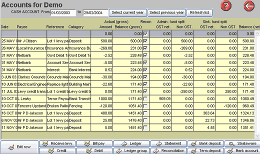 Strataware V1 GL Screen